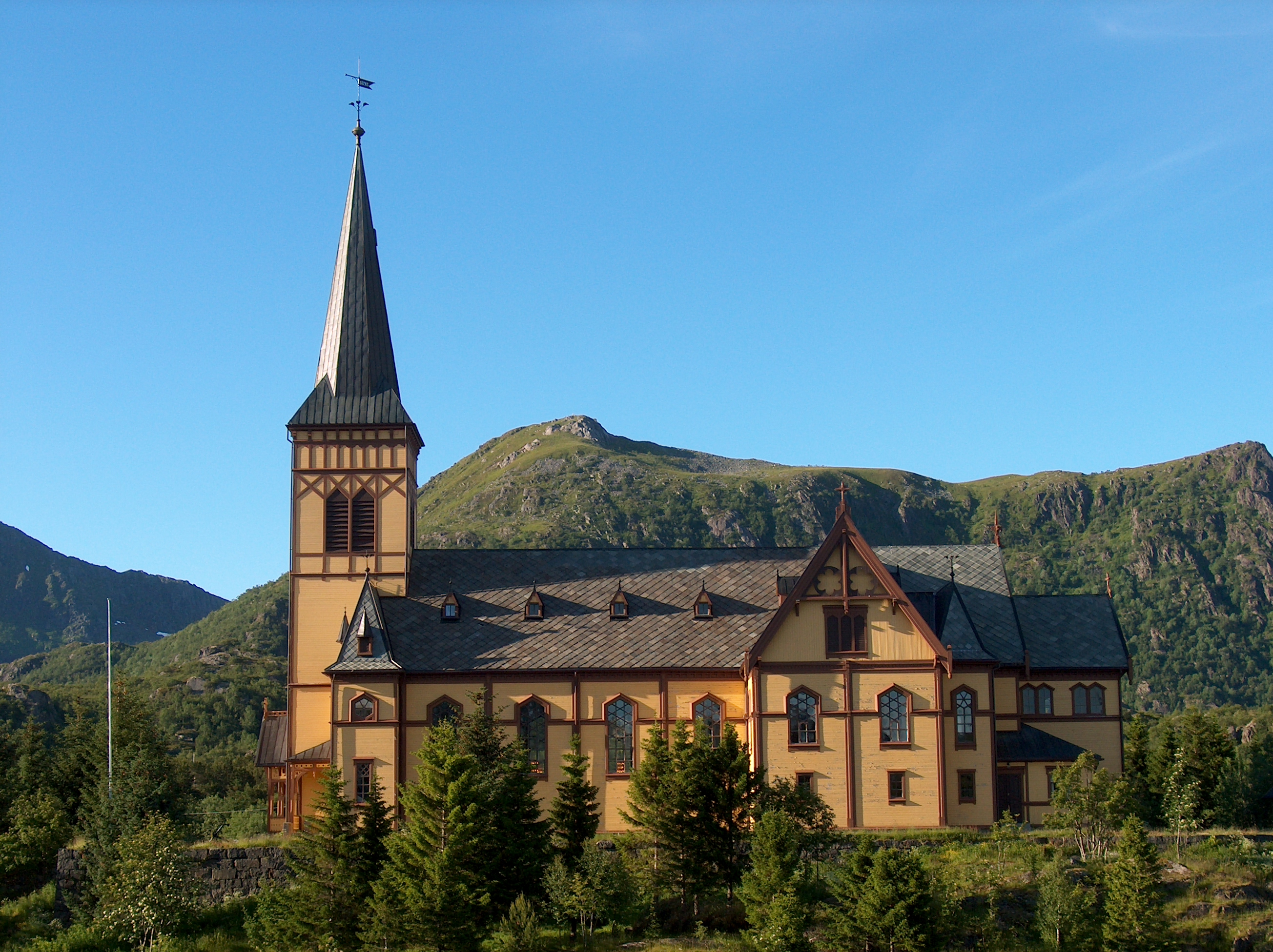 Kabelvåg, Vågan Church.